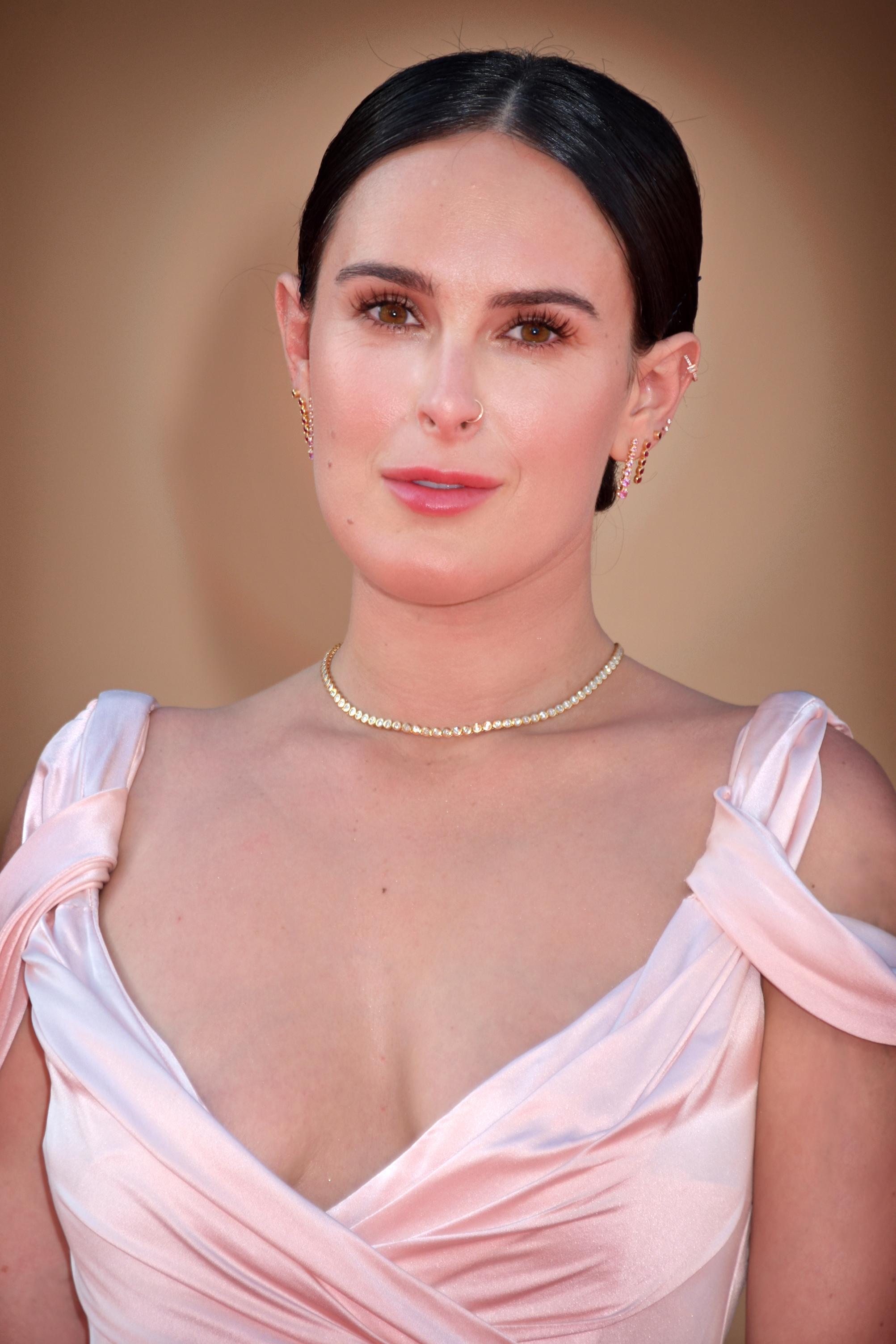 Rumer Willis at the "Once Upon A Time In Hollywood" premiere in Hollywood California on July 22, 2019 - Photo by Glenn Francis of